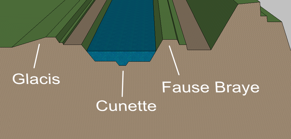 Example of the Glacis, cunette, fause-braye part of a fortification